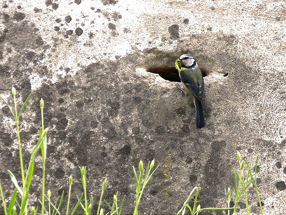 Mother blue tit is bringing some food to her chicks!